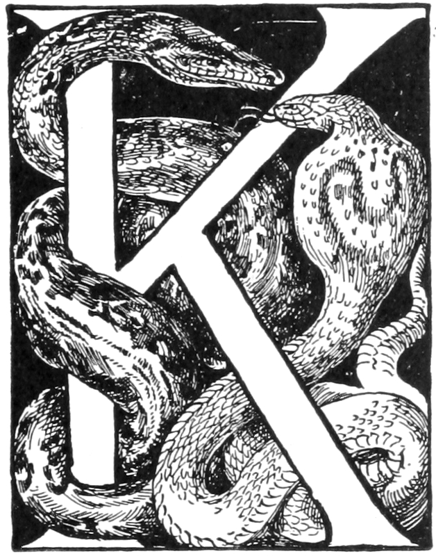 Stylized capital K appearing on the first page of the chapter "The King's Ankhus"